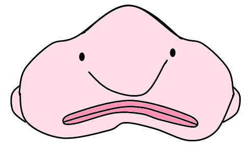 A simulation of Psychrolutes marcidus (Blobfish)